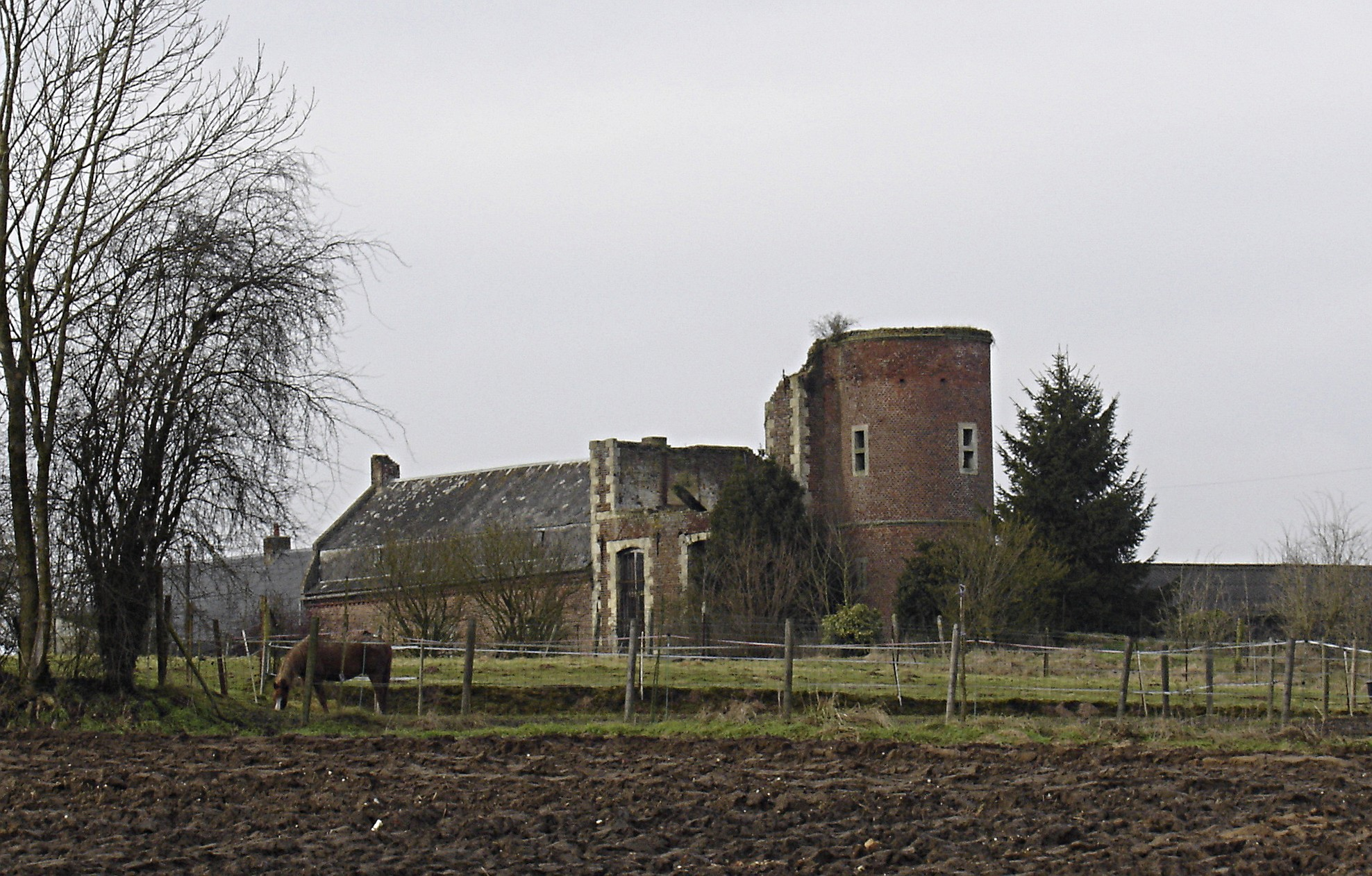 Troisvilles - Le Fayt